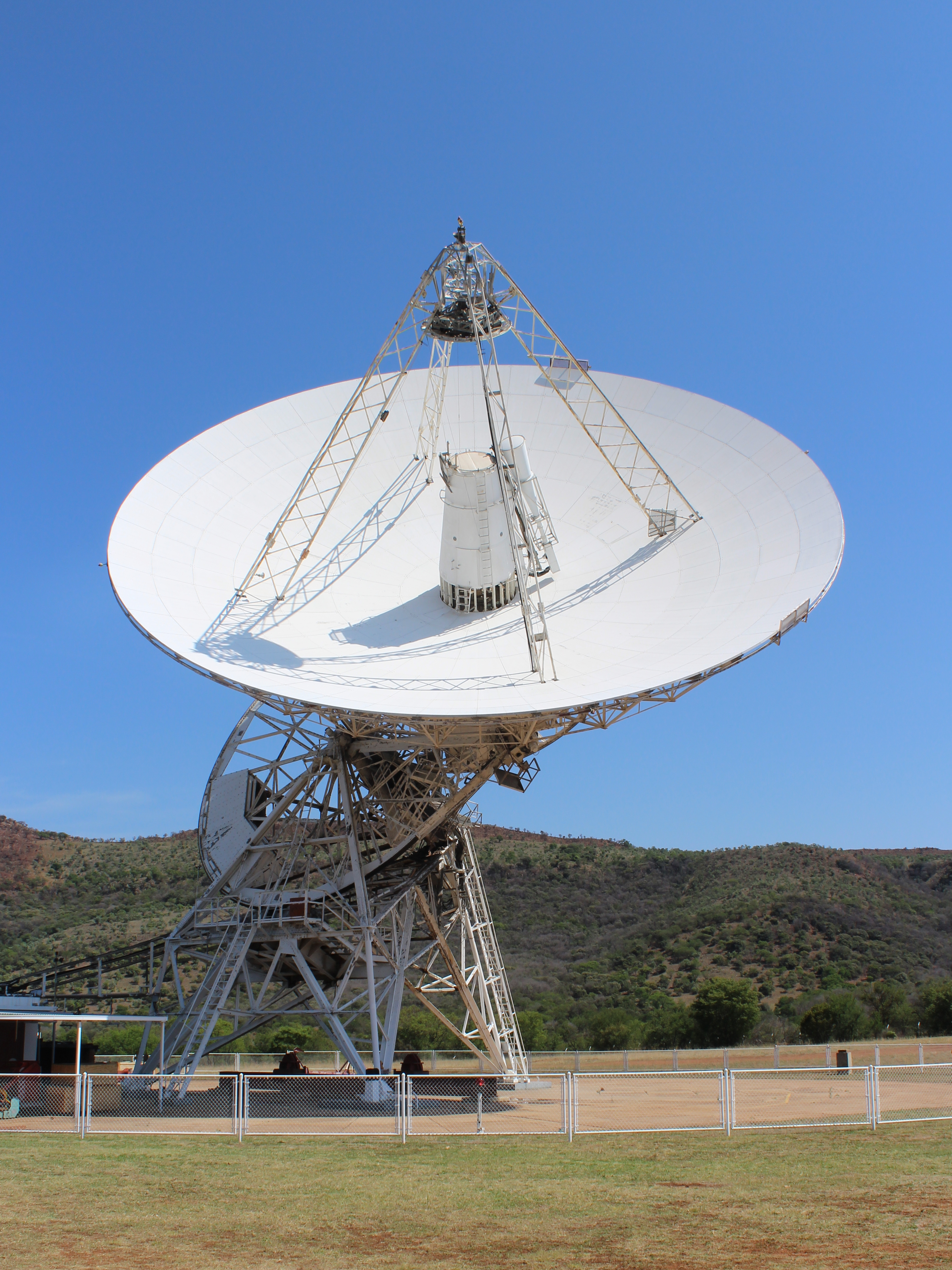 Front view of the 26 metre radio-telescope located at the Hartebeeshoek Radio Astronomy Observatory (HartRAO), formerly DSS 51 NASA Deep Space Station 51 located 65 km north-west of Johannesburg. The telesscope has seven channels in the 1.3 cm to 18 cm range. It was built in 1961 as part of the NASA Space program and was handed over to the South African Council for Scientific and Industrial Research in 1975.[1] ↑ HartRAO 26m Radio Telescope Details. Retrieved on 2 December 2016.